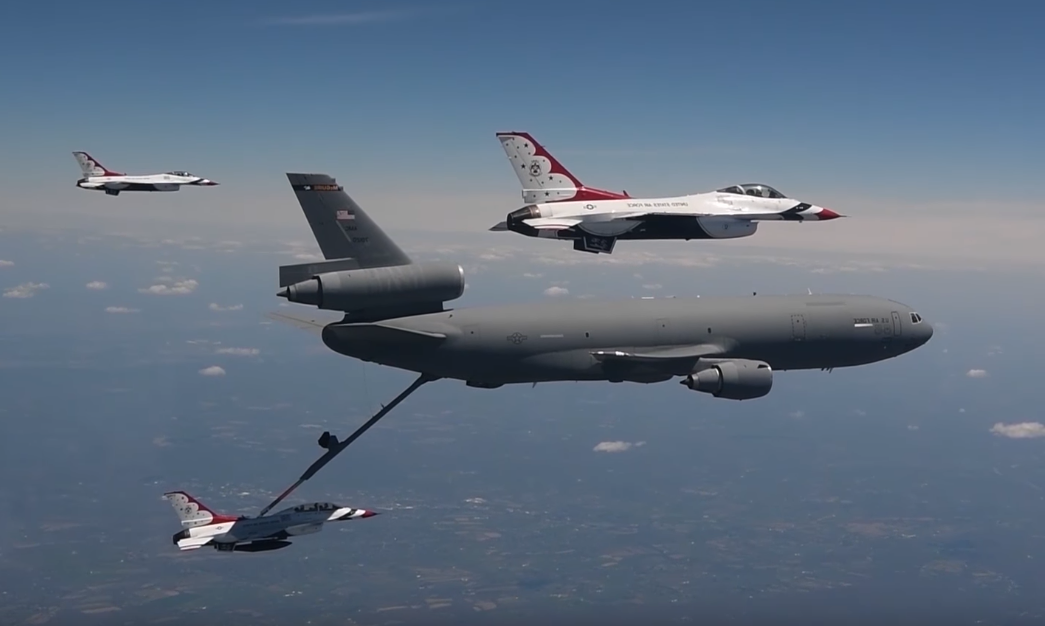 KC-10 refueling the US AirForce Thunderbirds in their F-16 Fighting Falcons during their joint Navy Blue Angels Flyovers of American east coast cities for their part in America Strong.